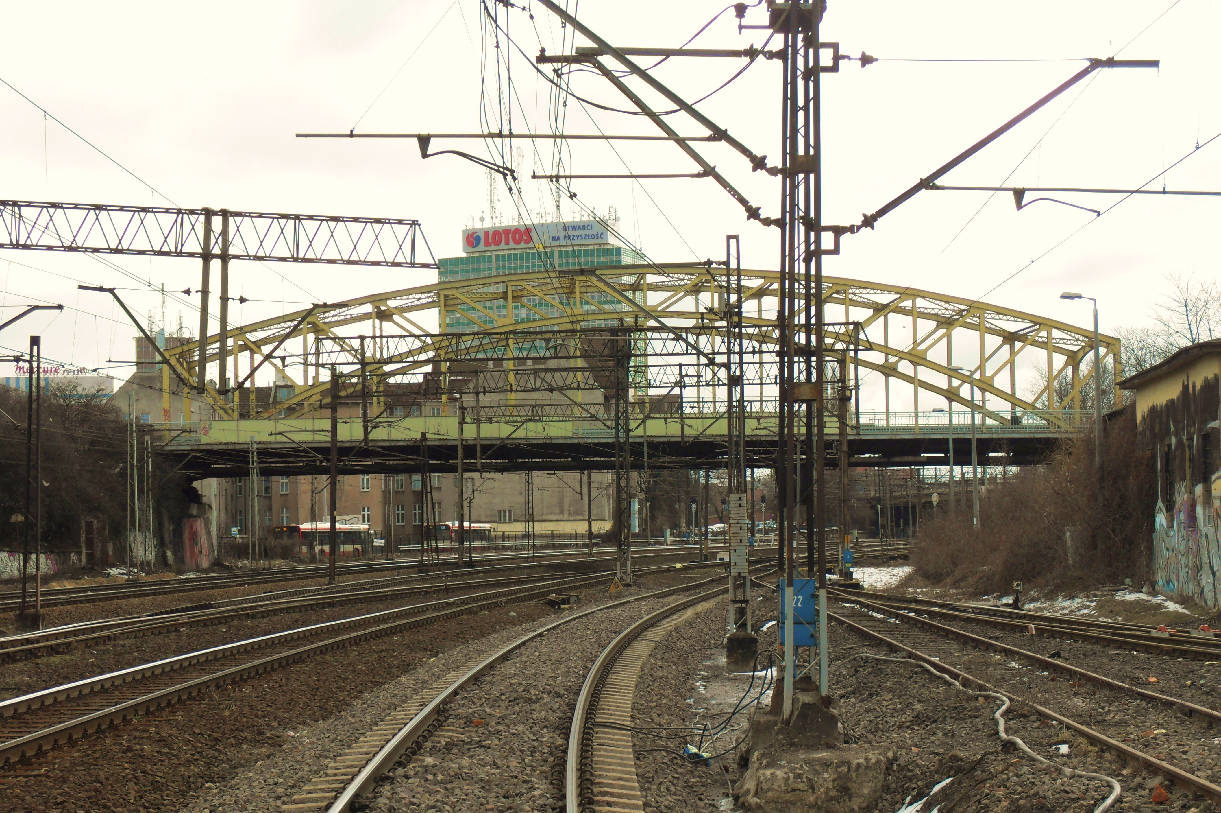 Tzw. "żółty" wiadukt nad torami kolejowymi w Gdańsku.